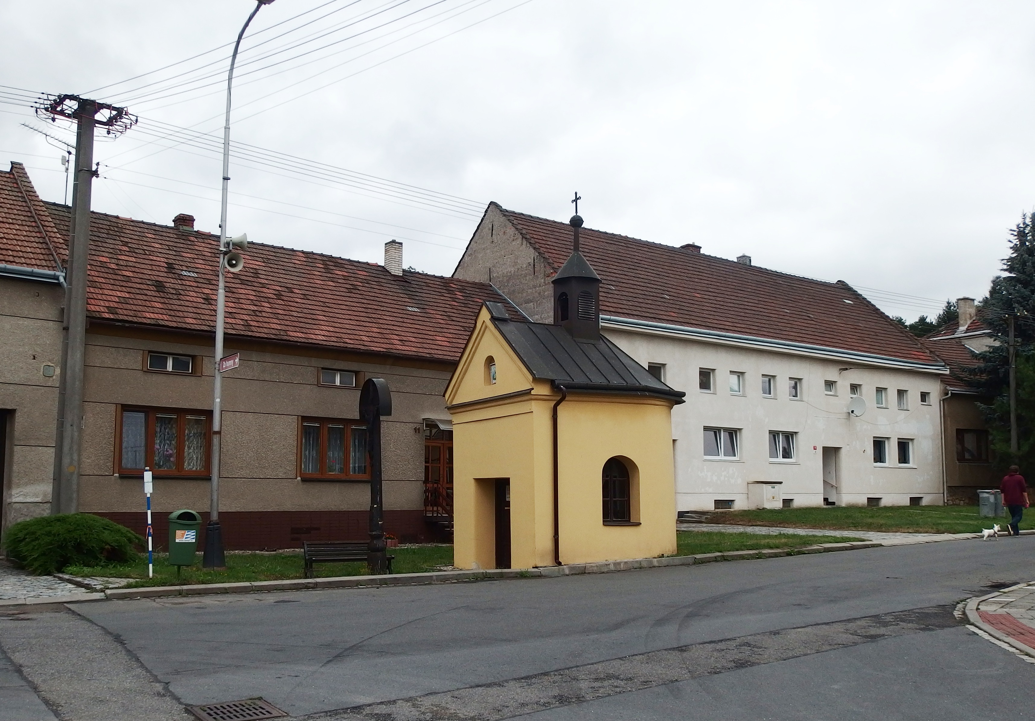 Přerov, Czech Republic, part Vinary.